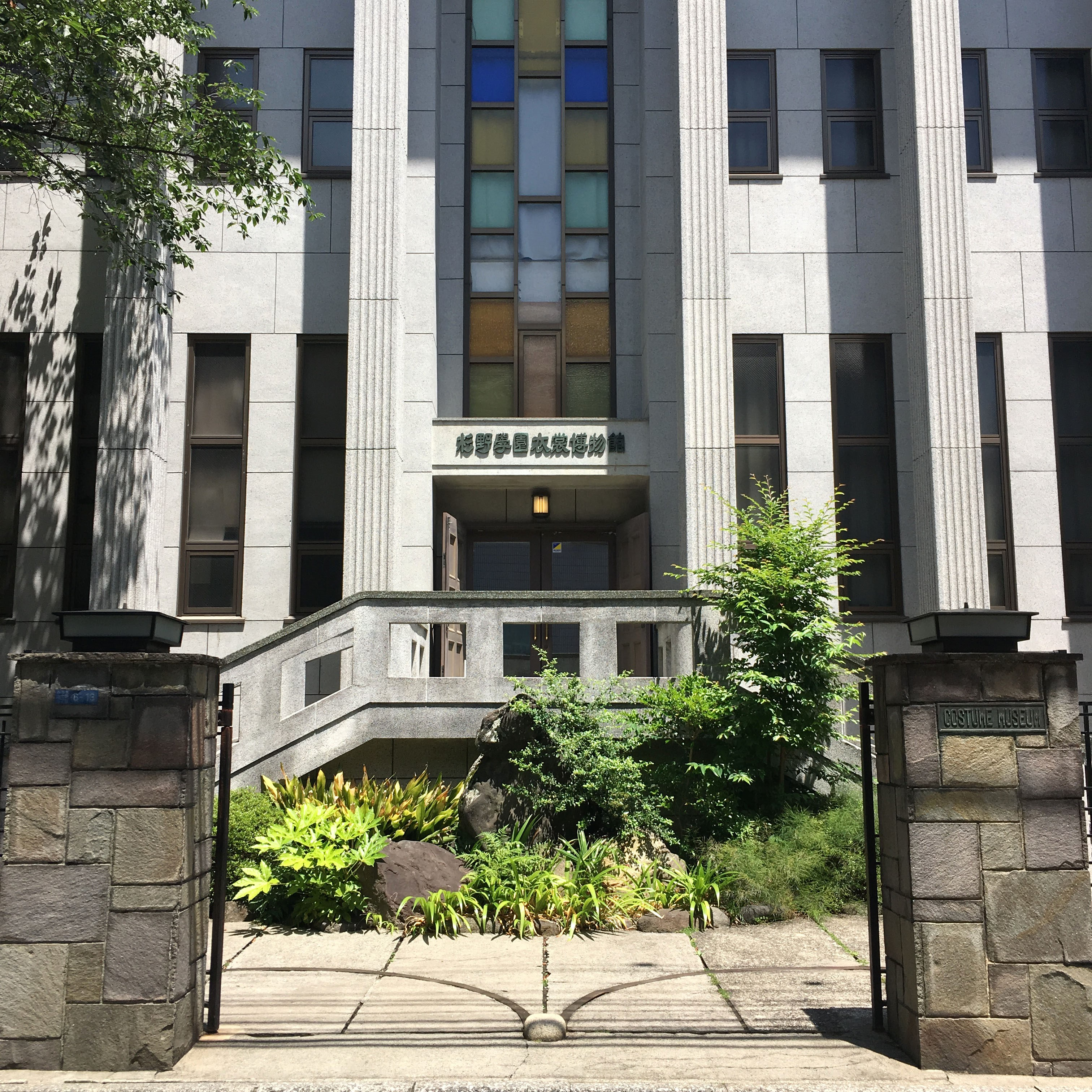 Sugino Costume Museum (Tokyo, Japan)